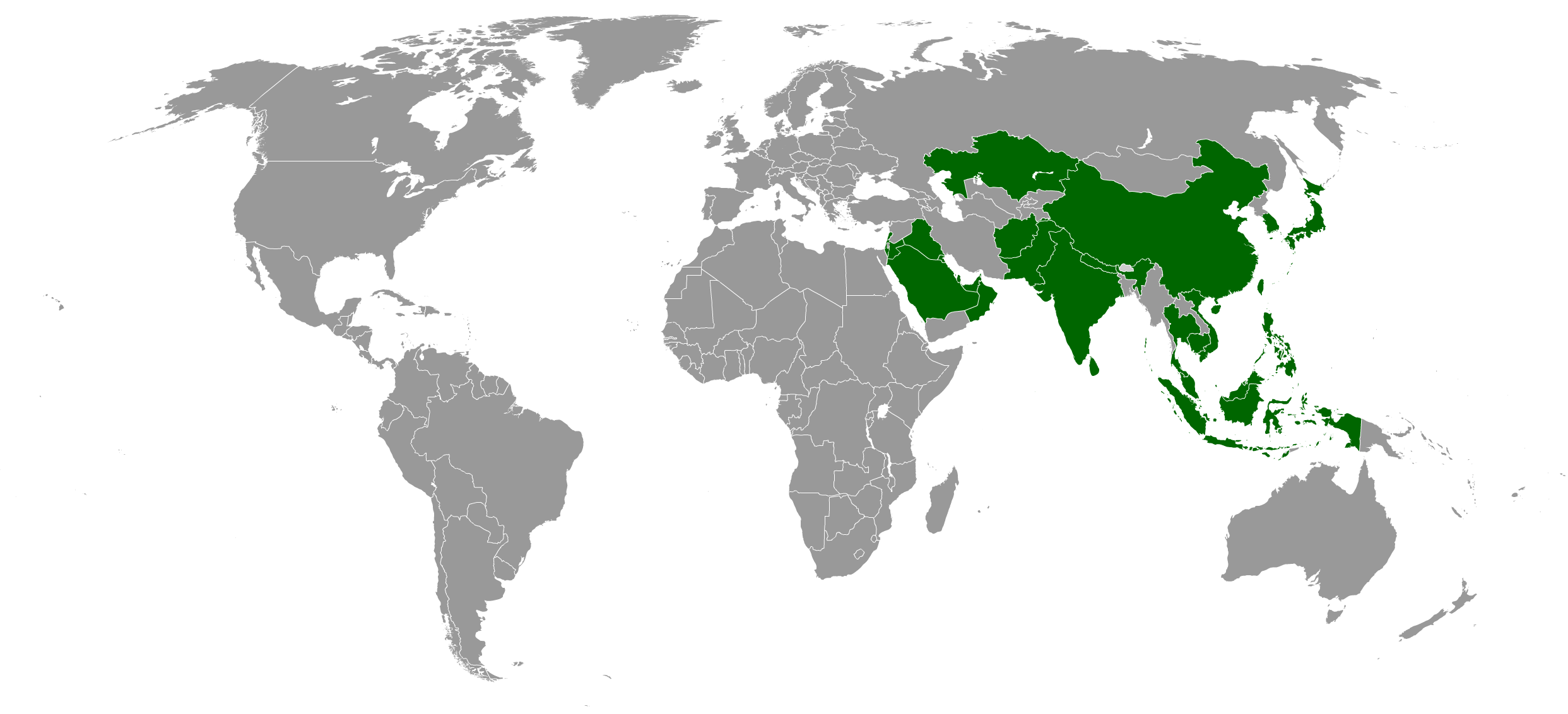 Map of Burger King locations in Asia